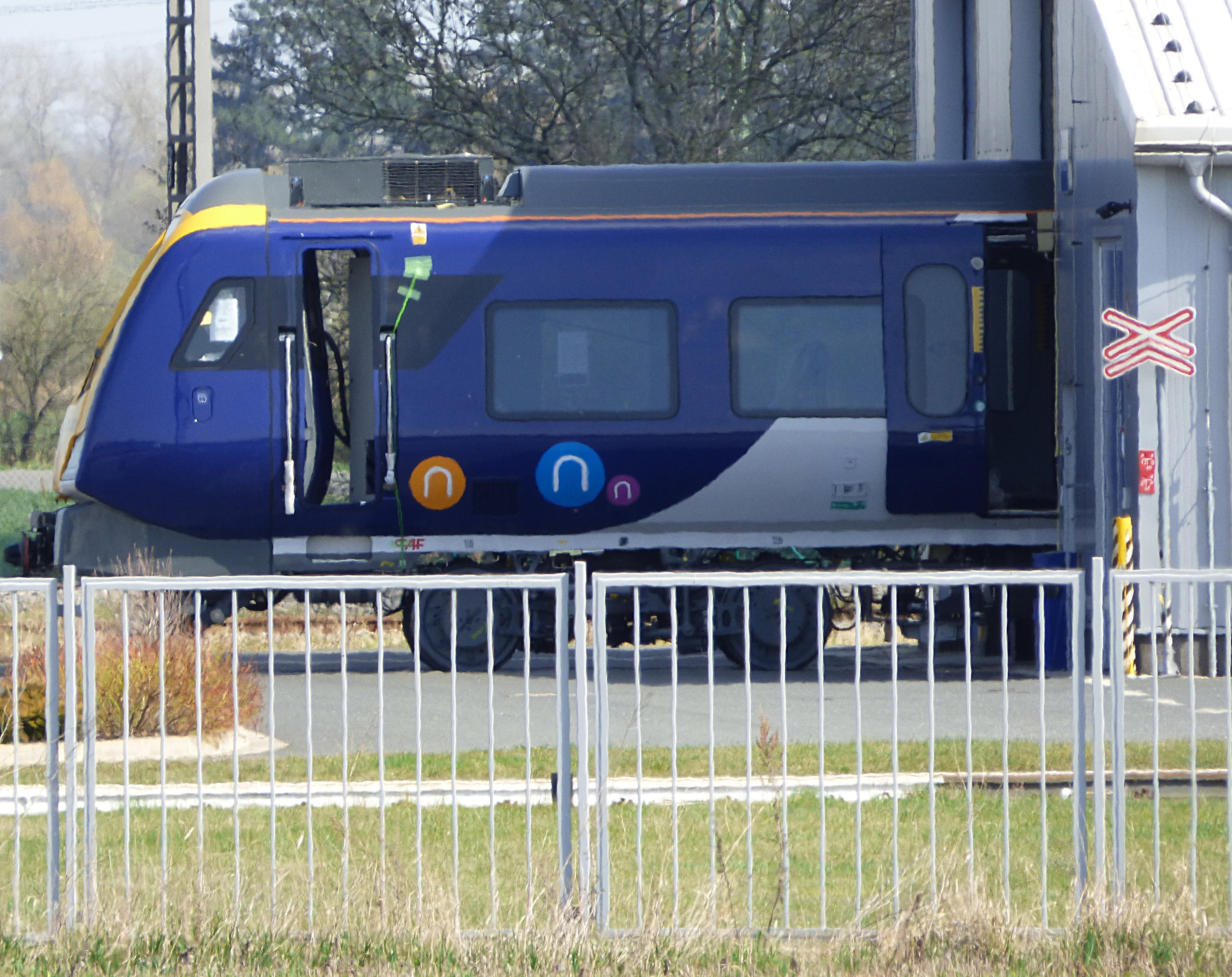 Northern Rail Class 195 101 at Velim test centre